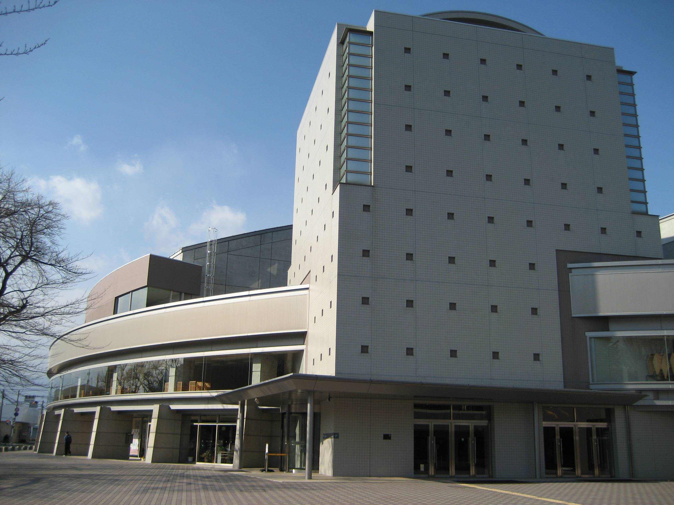 Raisin Hall (レザンホール) is concert hall in Shiojiri city, Nagano prefecture, Japan.